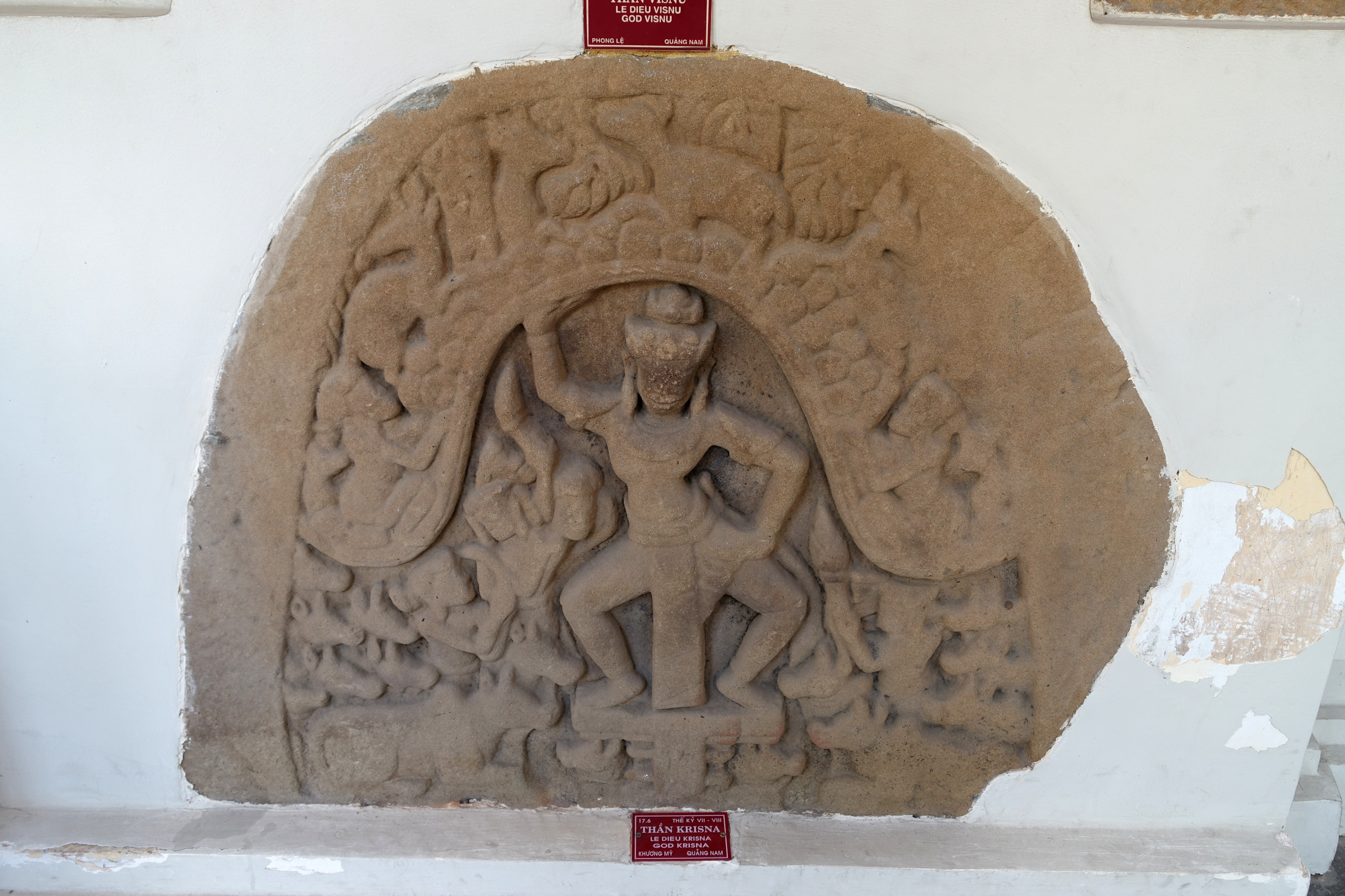 Cham sculpture at the Museum of Cham Sculpture, Da Nang, Vietnam. The Museum dates it to 7th-8th century, while Anne-Valérie Schweyer and Paisarn Piemmettawat date it to the 10th century (Editions Olizane, ISBN 978-2-88086-396-8, page 388). John Guy of the Metropolitan Museum of Arts dates it to the 7th century (MMoA, ISBN 978-1-58839-524-5, page 17). This artwork is in the public domain because the artist died more than 70 years ago.